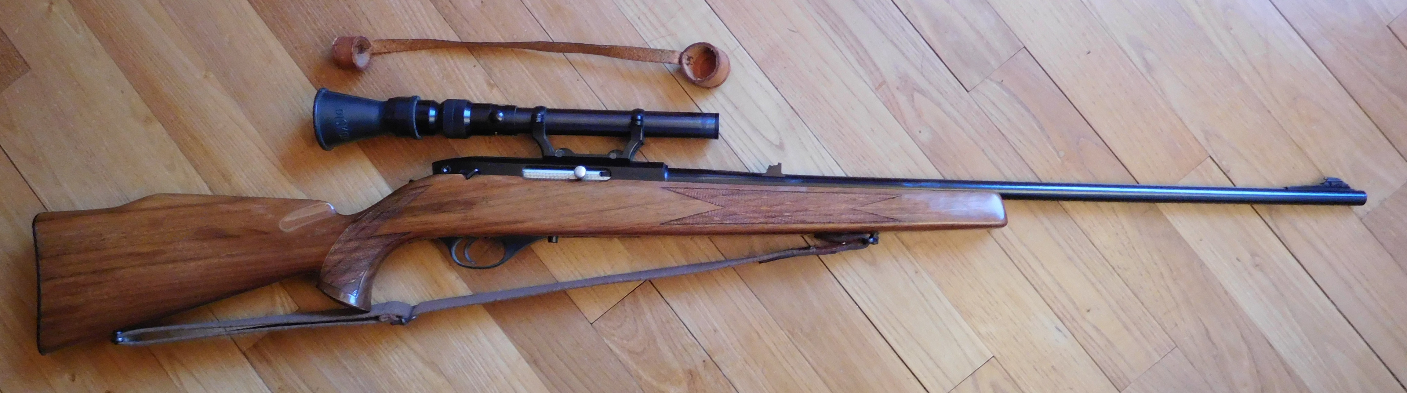 Weatherby Mark XXII, manufactured in Italy by Beretta, .22 LR caliber rifle.